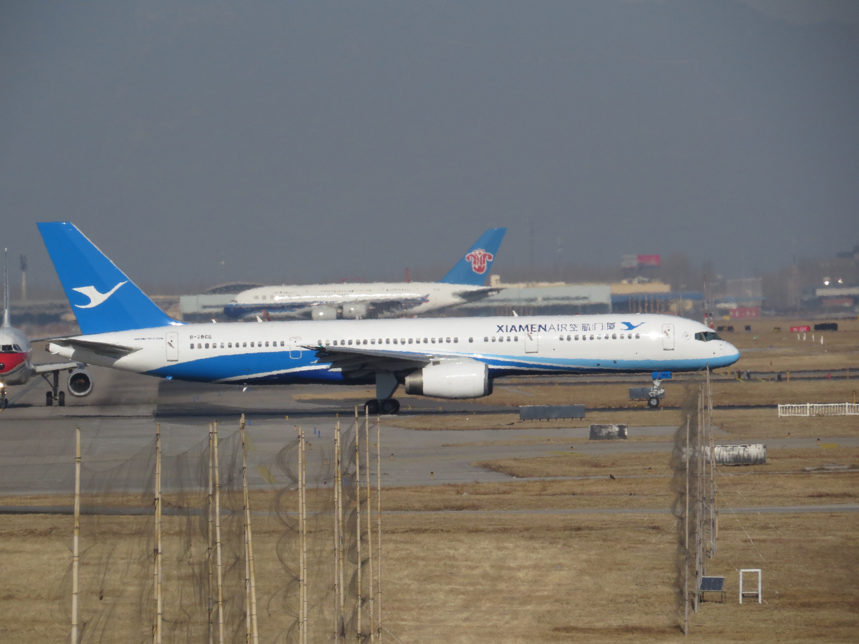 CXA8116 back to Fuzhou.